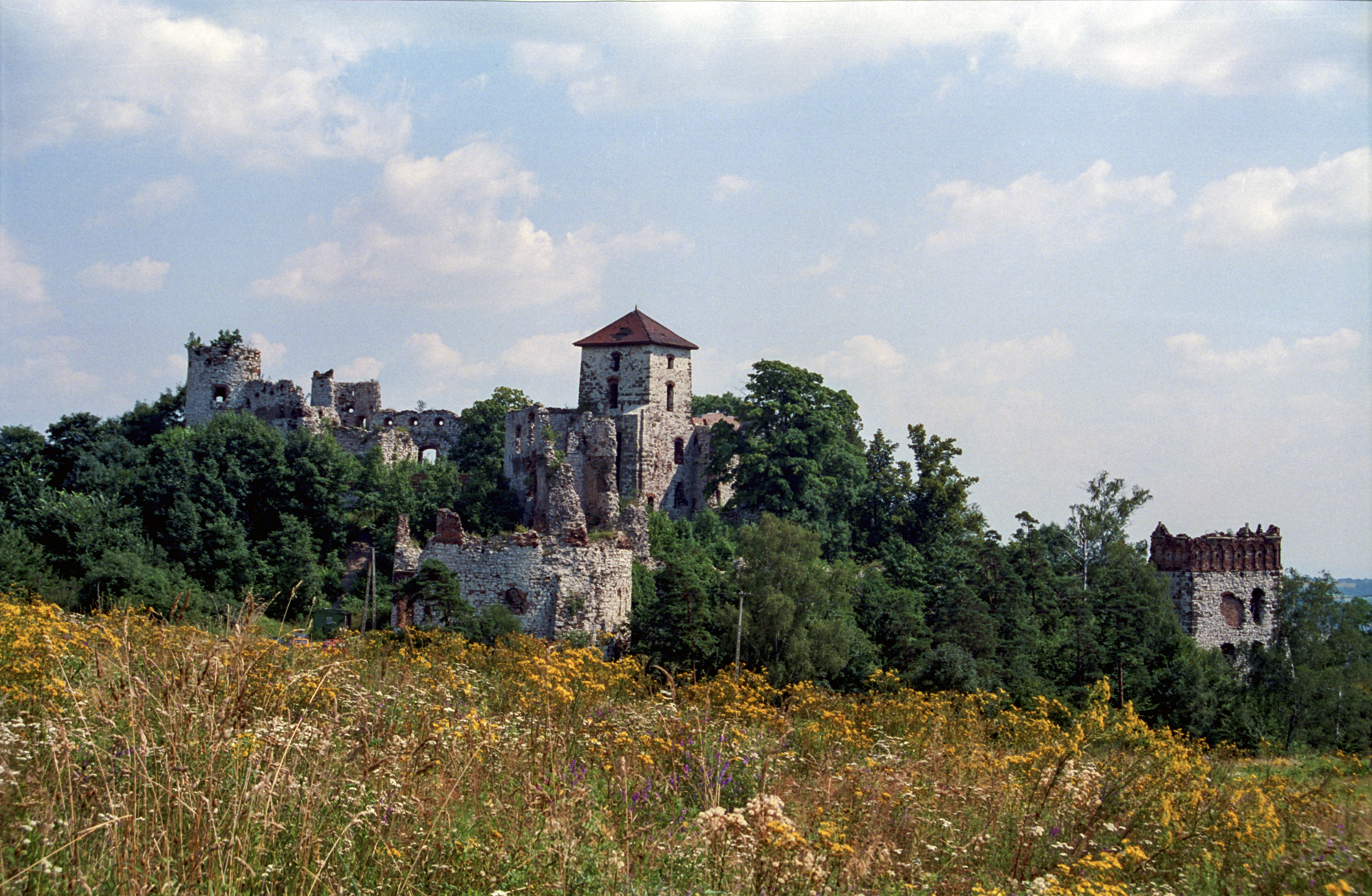 Poland, Jura, TenczynCastle